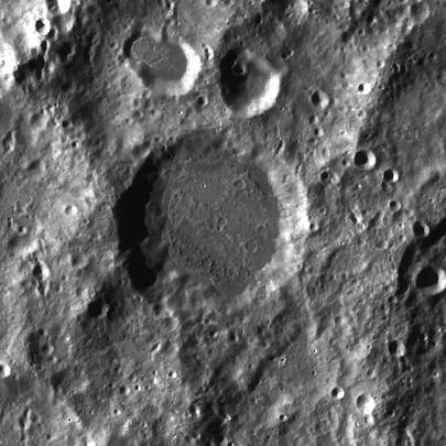 LROC image. Rosseland is sited deep in mountainous terrain south of Tsiolkovskiy .